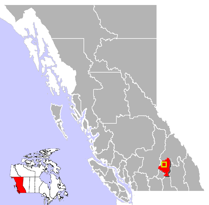 Enderby, location.